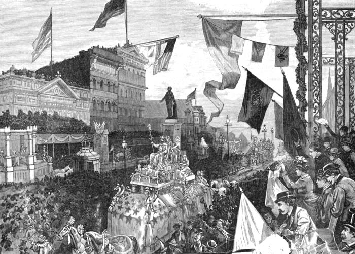 New Orleans Mardi Gras: View of parades and crowds on Canal Street viewed from balcony at at corner with Royal Street, 1885.